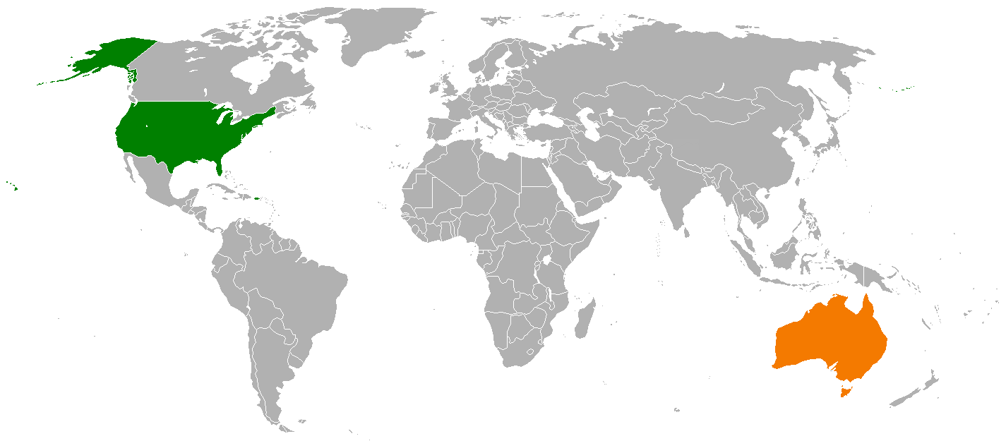 Do not change the colours, or the name, or the extension, or the image won't work properly in the template on